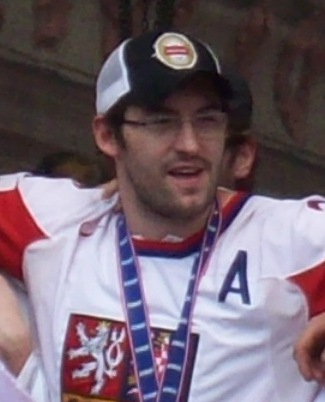 Petr Čáslava, Czech ice hockey team 2010